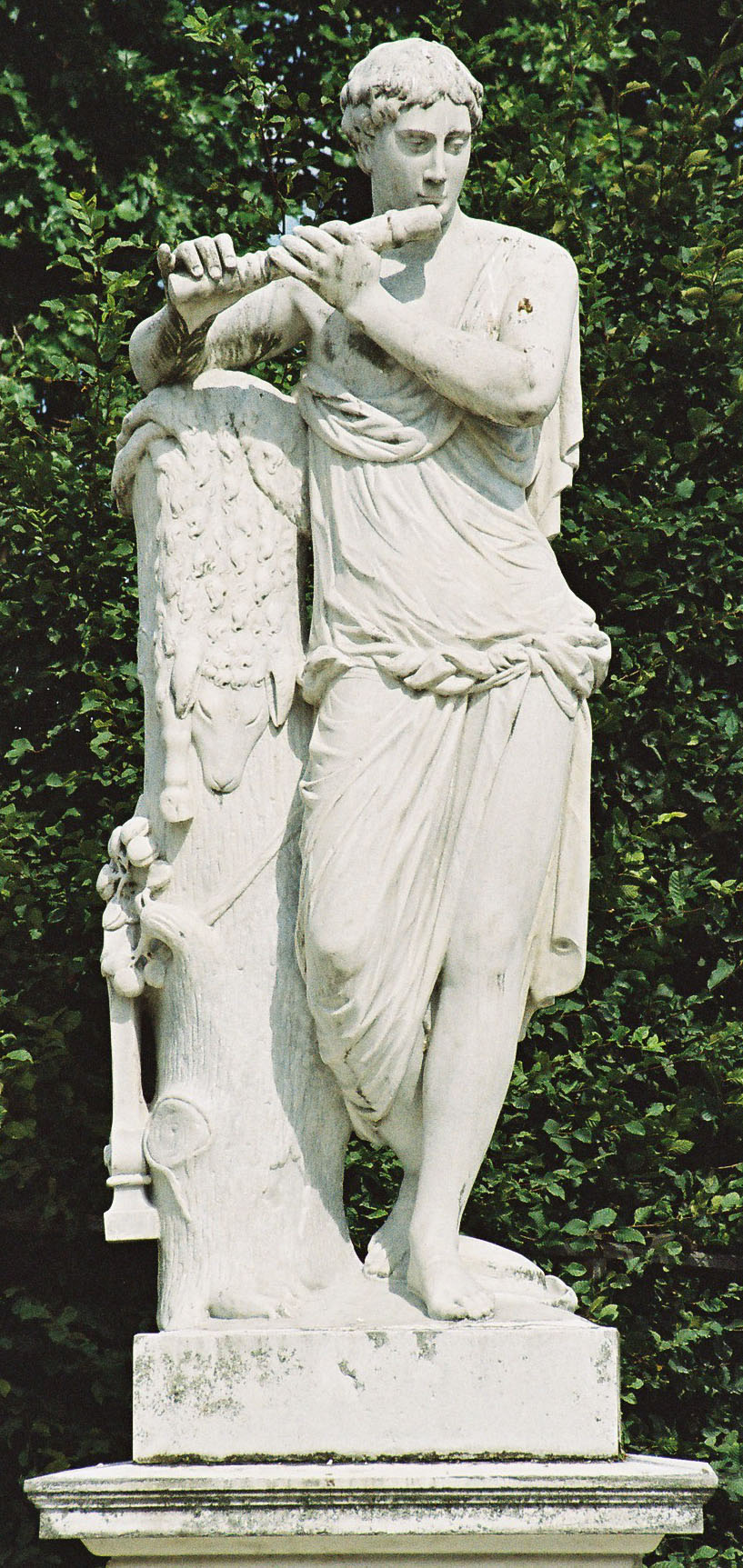 Vienna, Schönbrunn gardens, statue Mercury, by Ignaz Platzer